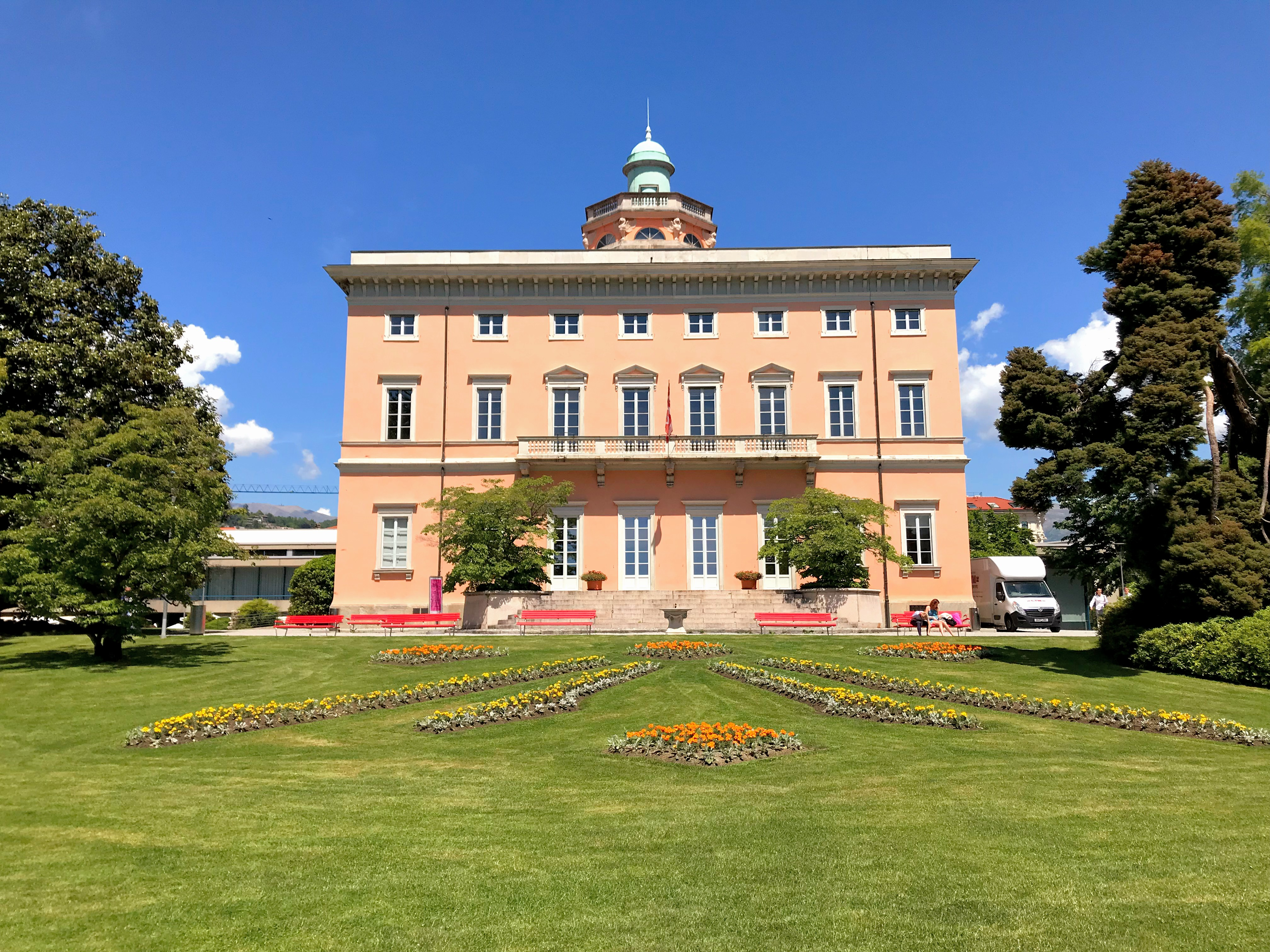 Villa Ciani Lugano